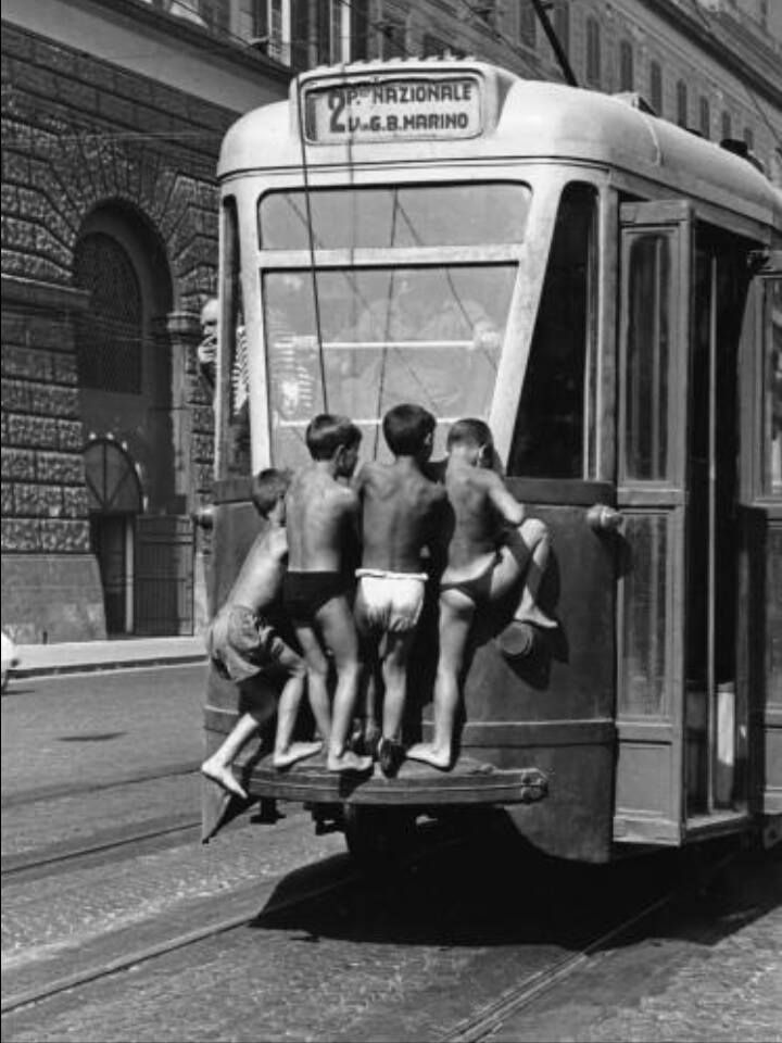 Little boys of Naples riding a cable tram